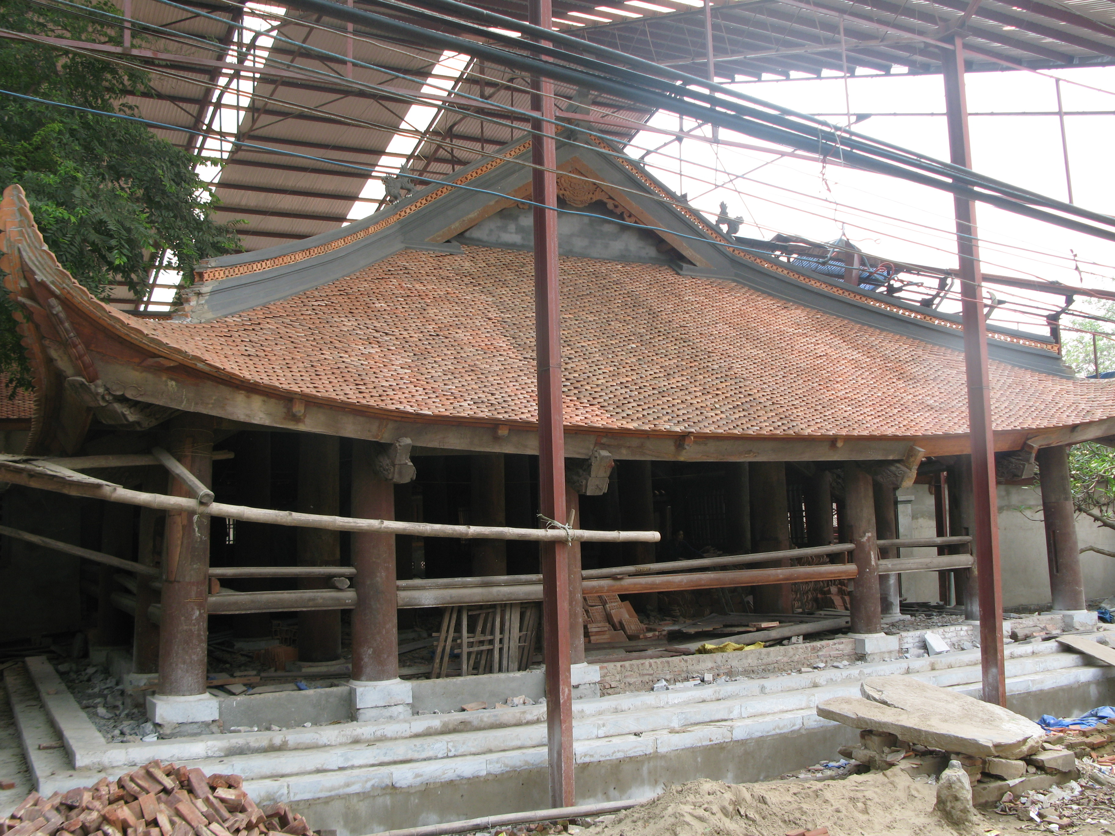 The Tho Ha temple was built in 1685 in Tho Ha village, Van Ha commune, Viet Yen district, Bac Giang Province